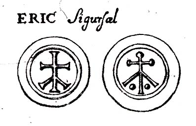 Coins of Eric Sigursel, i.e. King Eric the Victorious of SwedenPlace: Sweden